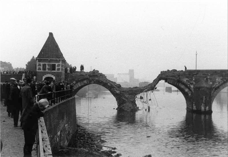 View of the river Meuse and the blown-up Saint Servatius Bridge in Maastricht, Netherlands, on the day of the liberation from the German occupation by the US 30th Infrantry Division. Photo collection of RHCL Maastricht, ref. nr. 30729